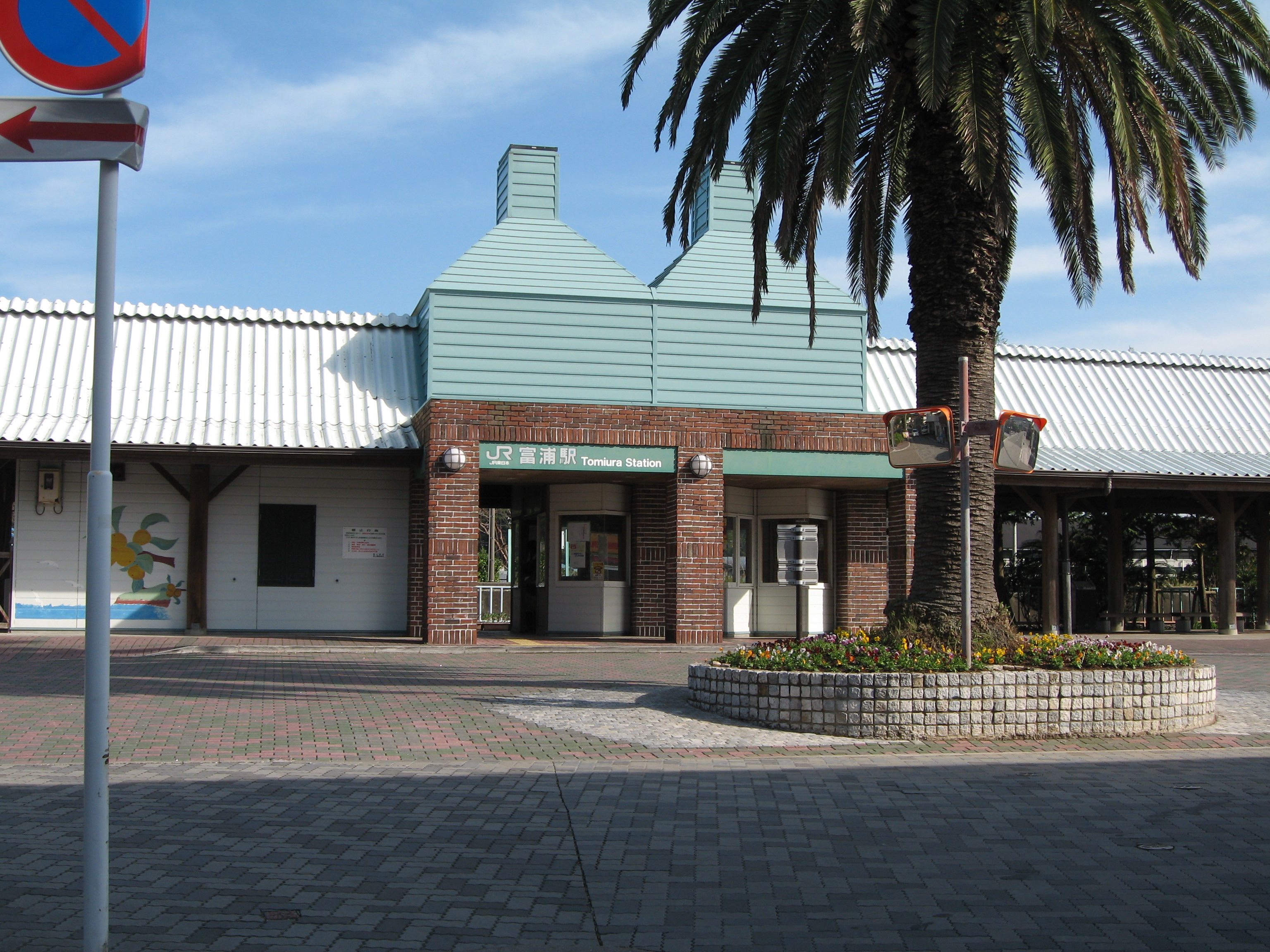 Tomiura station, Uchibo Line, Chiba, Japan, 富浦駅